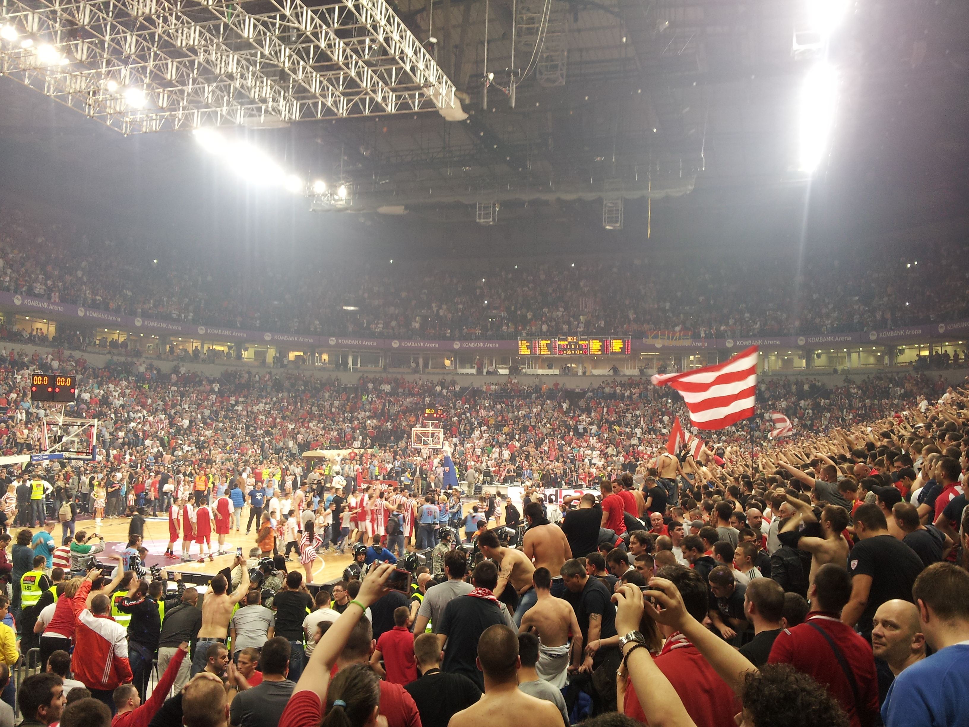 Eurocup game KK Crvena zvezda - Budivelnik, with ULEB record of 24.232 spectators